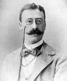 From :Image:Mieses.jpg, converted to B&W, improved contrast and level.